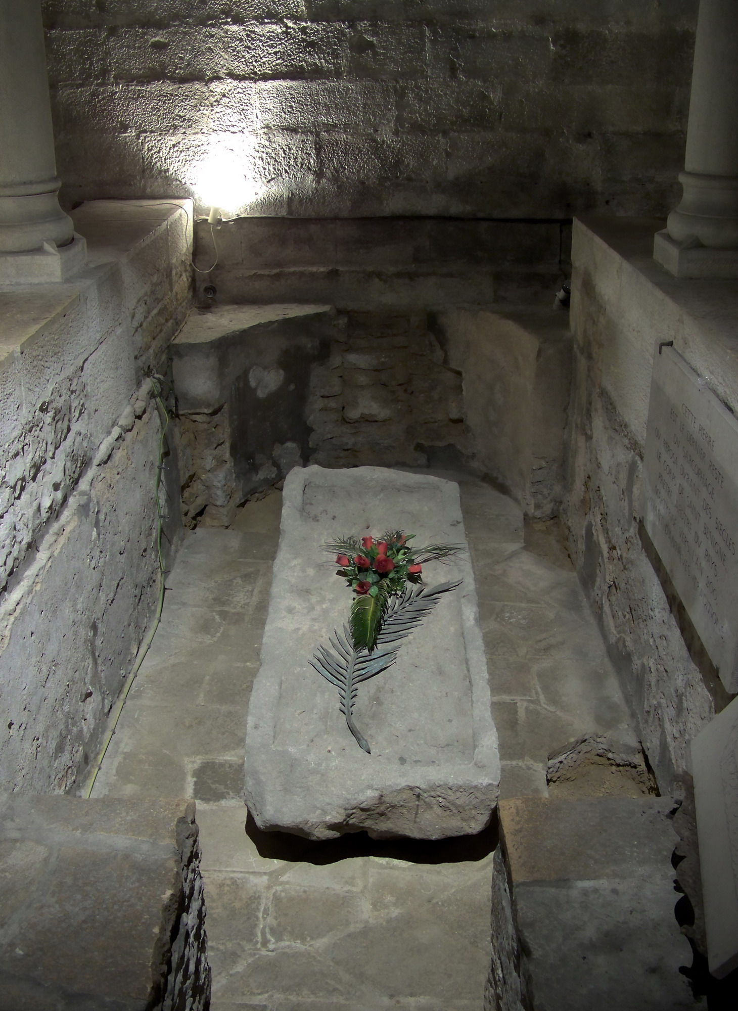 Tomb of Saint Bénigne, crypt (rotonde) of Dijon Cathedral.